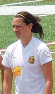 2013-07-04; Sarah Huffman in Chicago Red Stars vs Western New York Flash